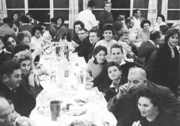 Seder Nacht (Passover Eve festive meal) in a Kibbutz during the 50ies